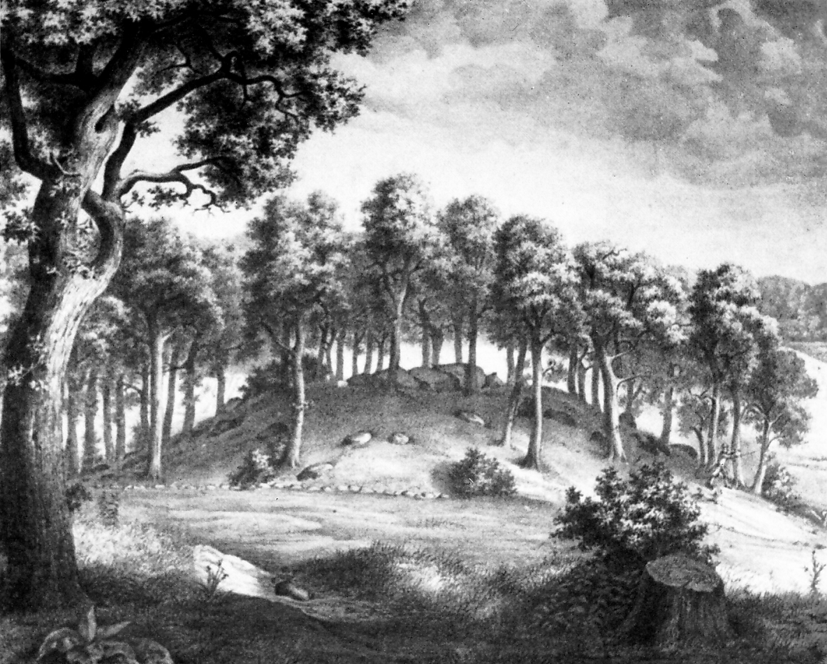 Megalithic Tomb Katelbogen (Sprockhoff-No. 370)